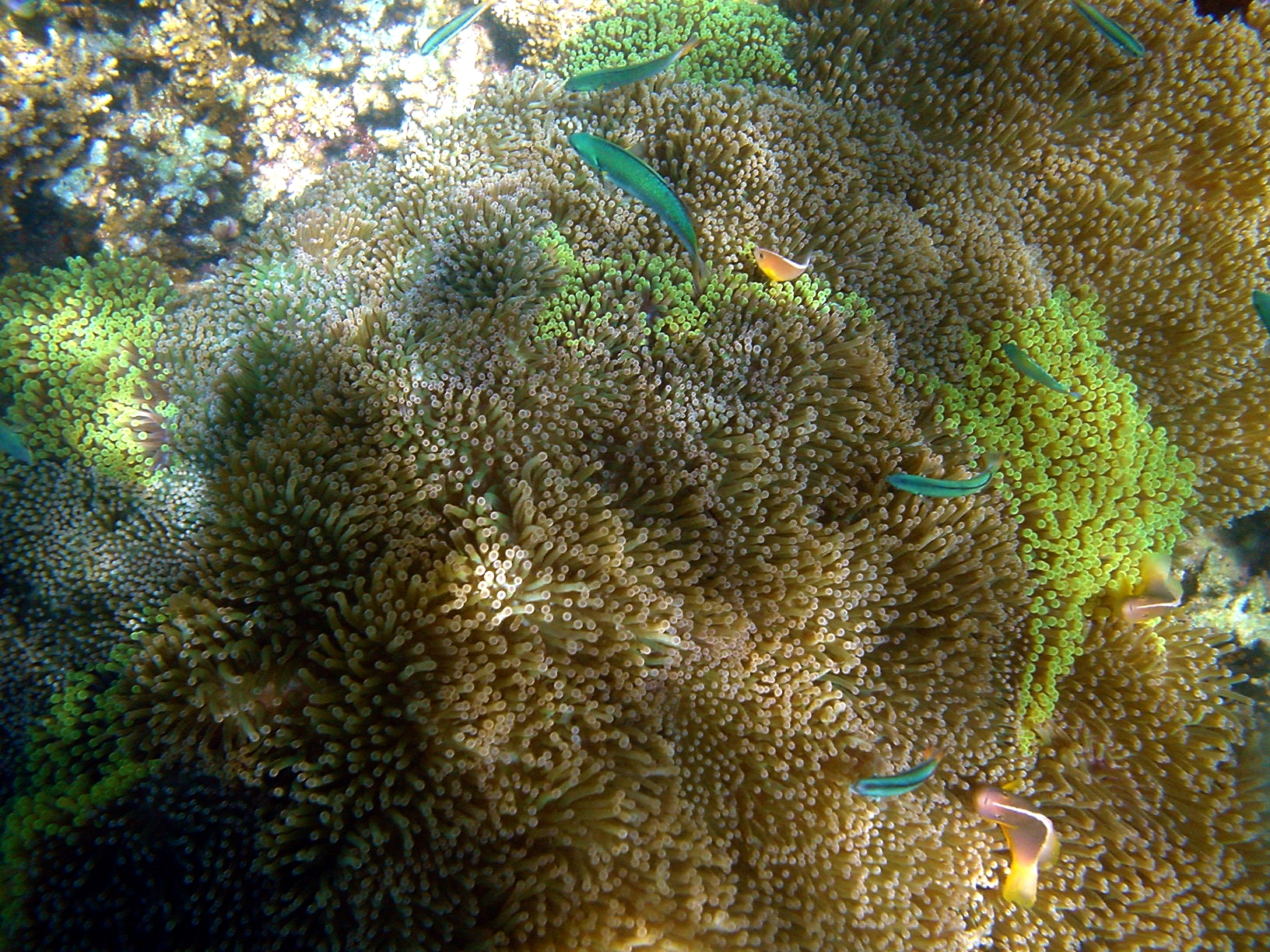 Sea Anemones Heteractis magnifica with Amphiprion akallopisos at Madagascar